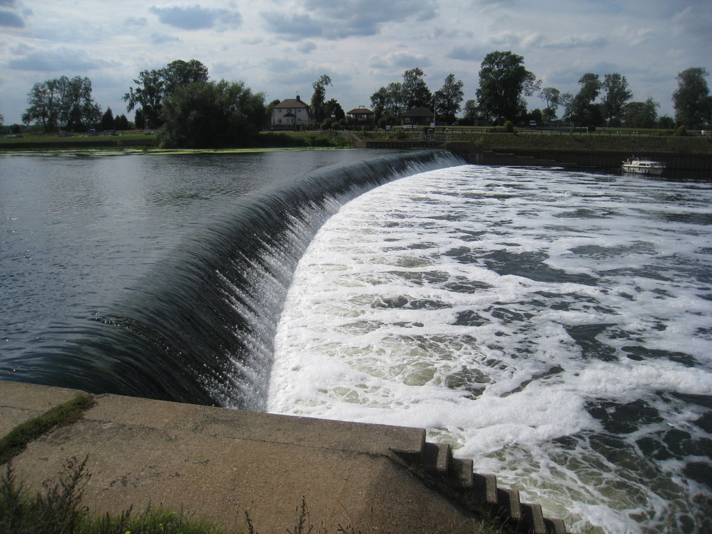 Cromwell Weir - Nottinghamshire's answer to Niagara. It also seems to have its own Maid of the Mist. This was the scene of a great tragedy in September 1975 when 10 soldiers were drowned during a night exercise on the river.